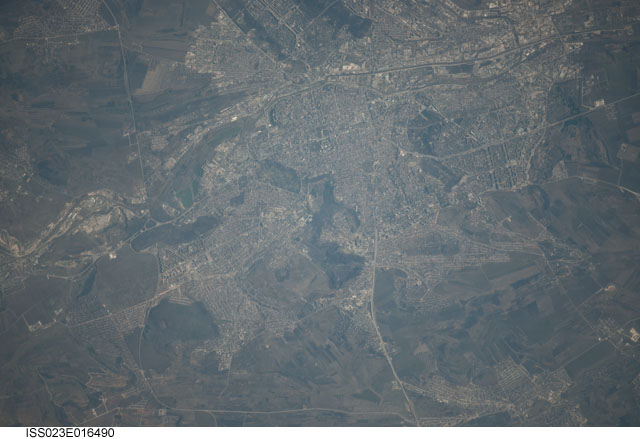 Astronaut Photo of Chisinau, Moldova taken from the International Space Station (ISS) during Expedition 23 on March 30, 2010.